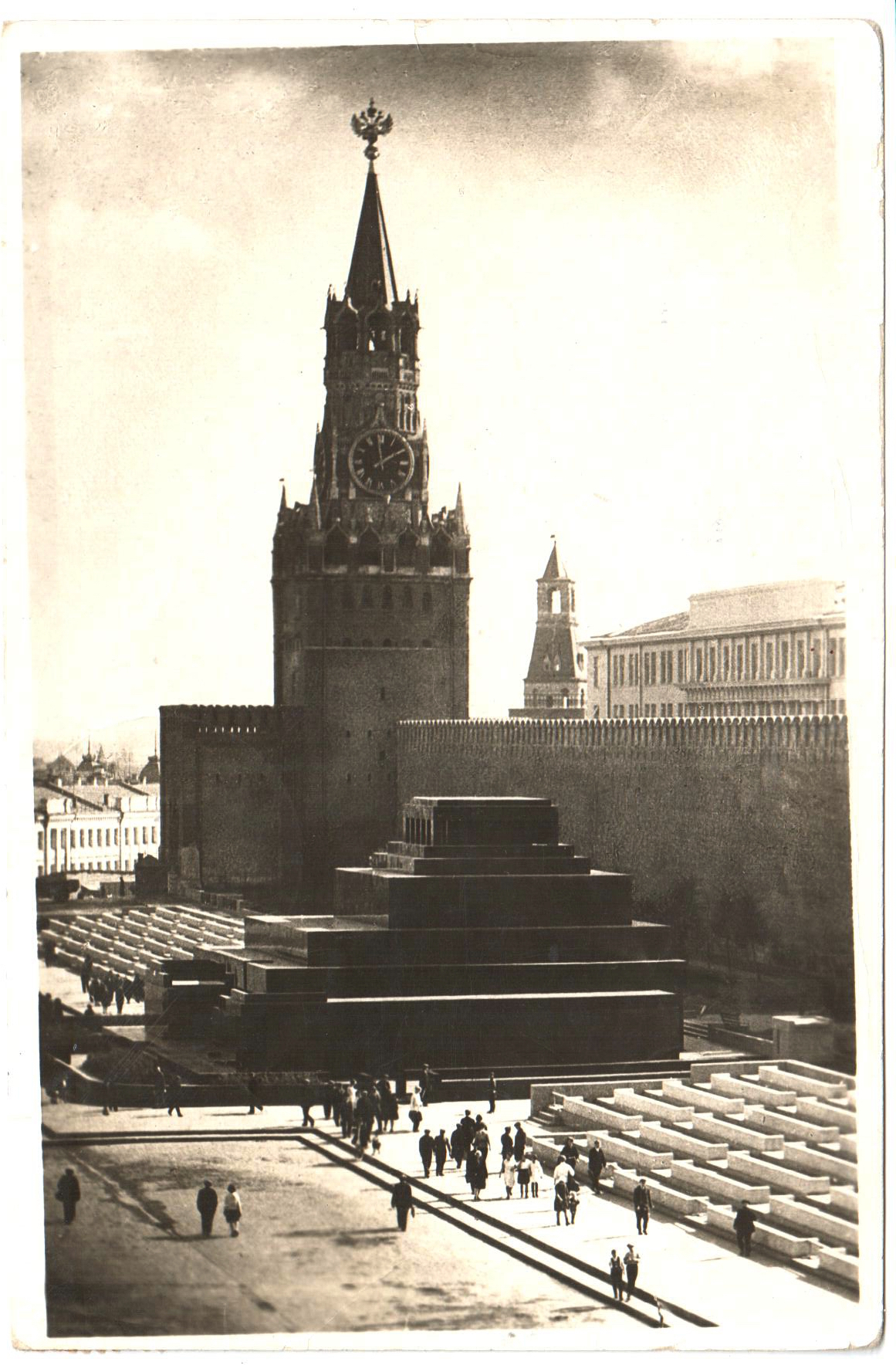 USSR 1932 used postcard of the Red Square in Moscow sent to Stuttgart